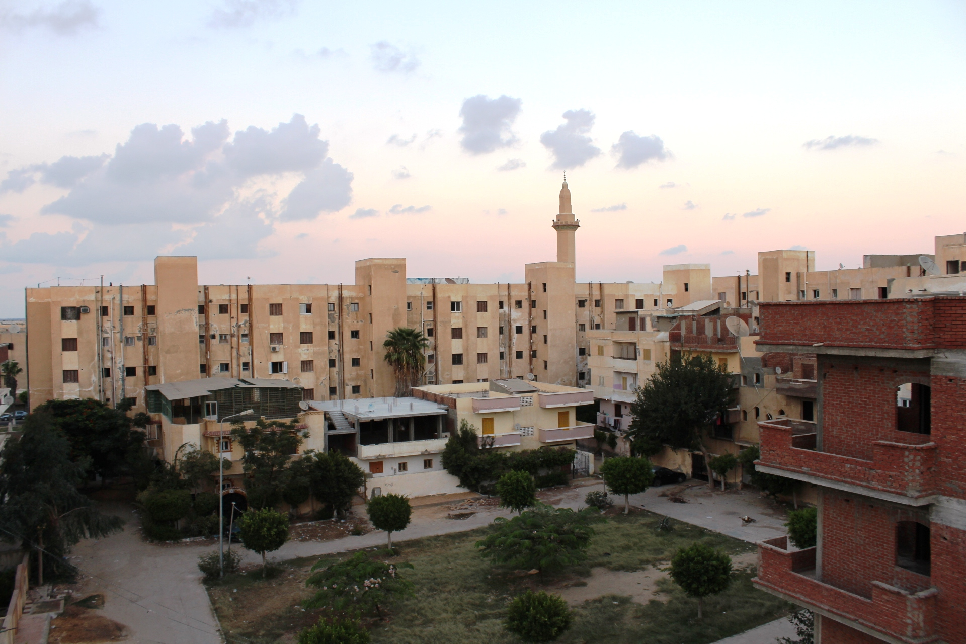 view of New Borg El Arab, Alexandria, Egypt